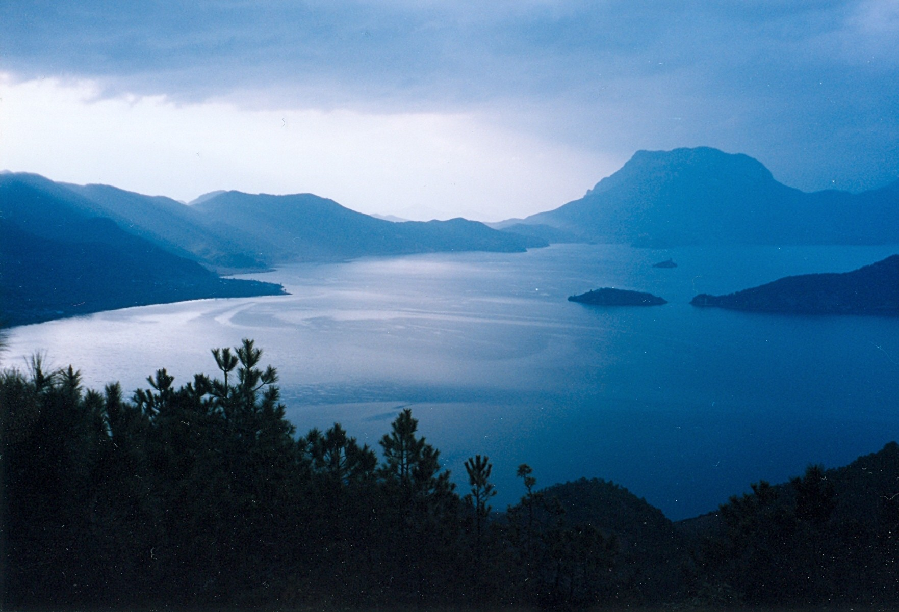 Lugu Lake, Yunnan, China. In the background on top of the right hand side of the lake you can see the holy mountain Ganmu.